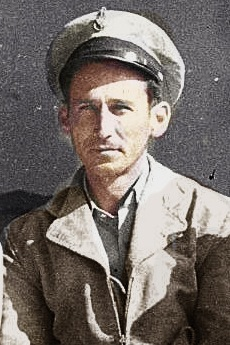 Chief Petty Officer Oliver F. Berry, ACMM. Photo illustration (black/white original) by Petty Officer 2nd Class Seth Johnson.